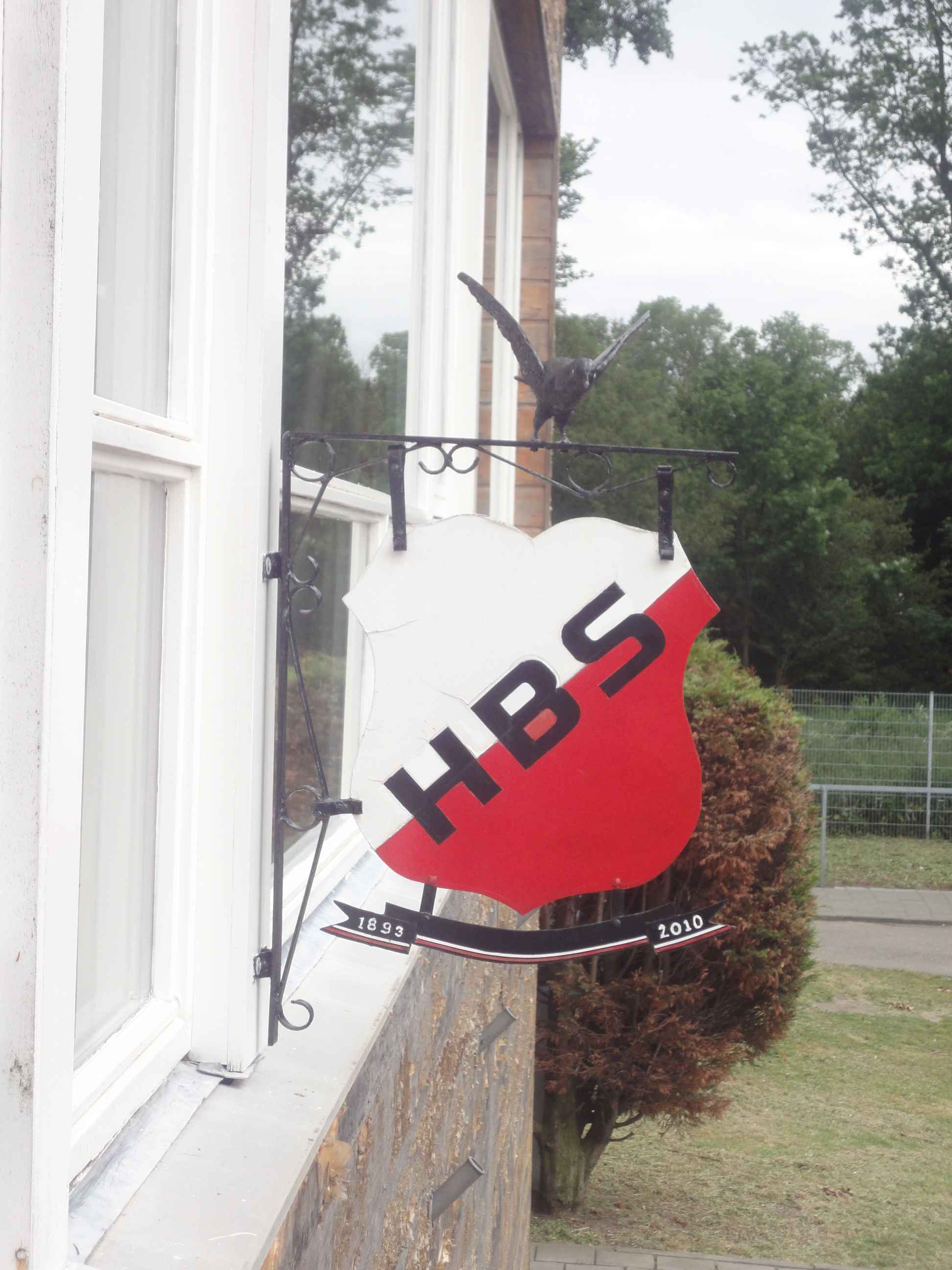 terain of soccer, hockey and cricket club HBS-Craeyenhout